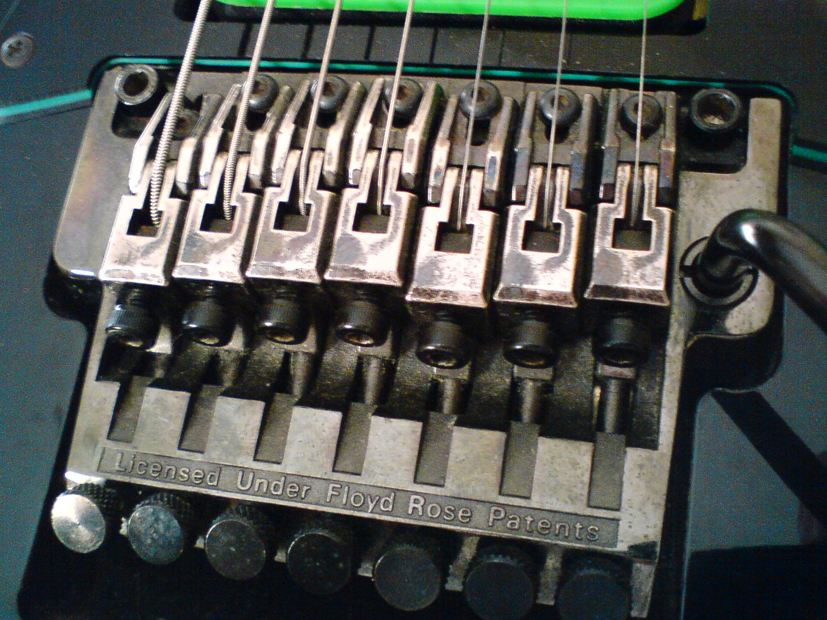 Ibanez Lo Pro Edge 7 tremolo, from 1996 Ibanez Universe UV7BK guitar